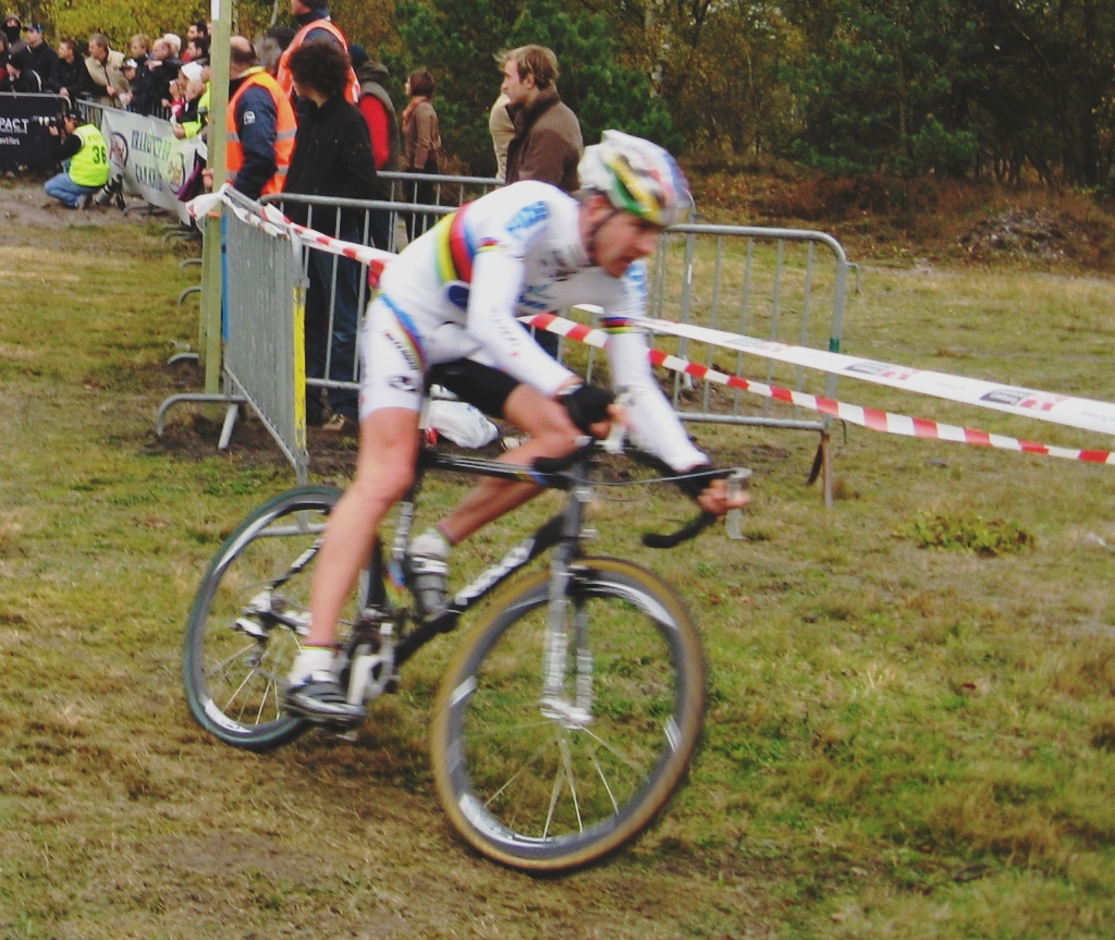 Erwin Vervecken in action during the cyclo-cross race in Zonhoven, Limburg, Belgium